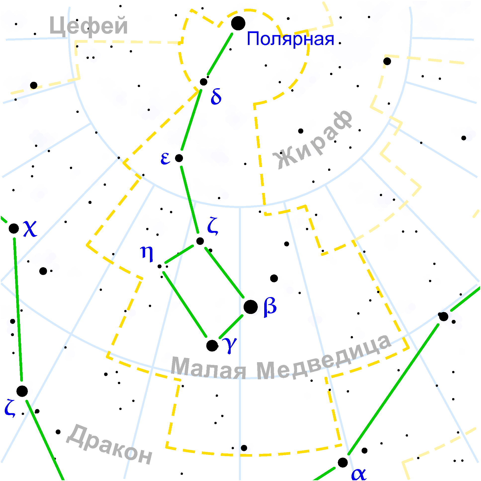 Ursa Minor constellation map in Russian It was created using the programs PP3, Miktex 2.5, GhostScript and Gimp. At PP3's homepage, you also get the input scripts necessary for re-compiling the map. The yellow dashed lines are constellation boundaries, the red dashed line is the ecliptic, and the shades of blue show Milky Way areas of different brightness. The map contains all Messier objects, except for colliding ones. The underlying database contains all stars brighter than 6.5. All coordinates refer to equinox 2000.0. The map is calculated with the equidistant azimuthal projection (the zenith being in the center of the image). The north pole is to the top. The (horizontal) lines of equal declination are drawn for 0°, +10°, +20° etc. The lines of equal rectascension are drawn for all 24 hours. Towards the rim there is a very slight magnification (and distortion).